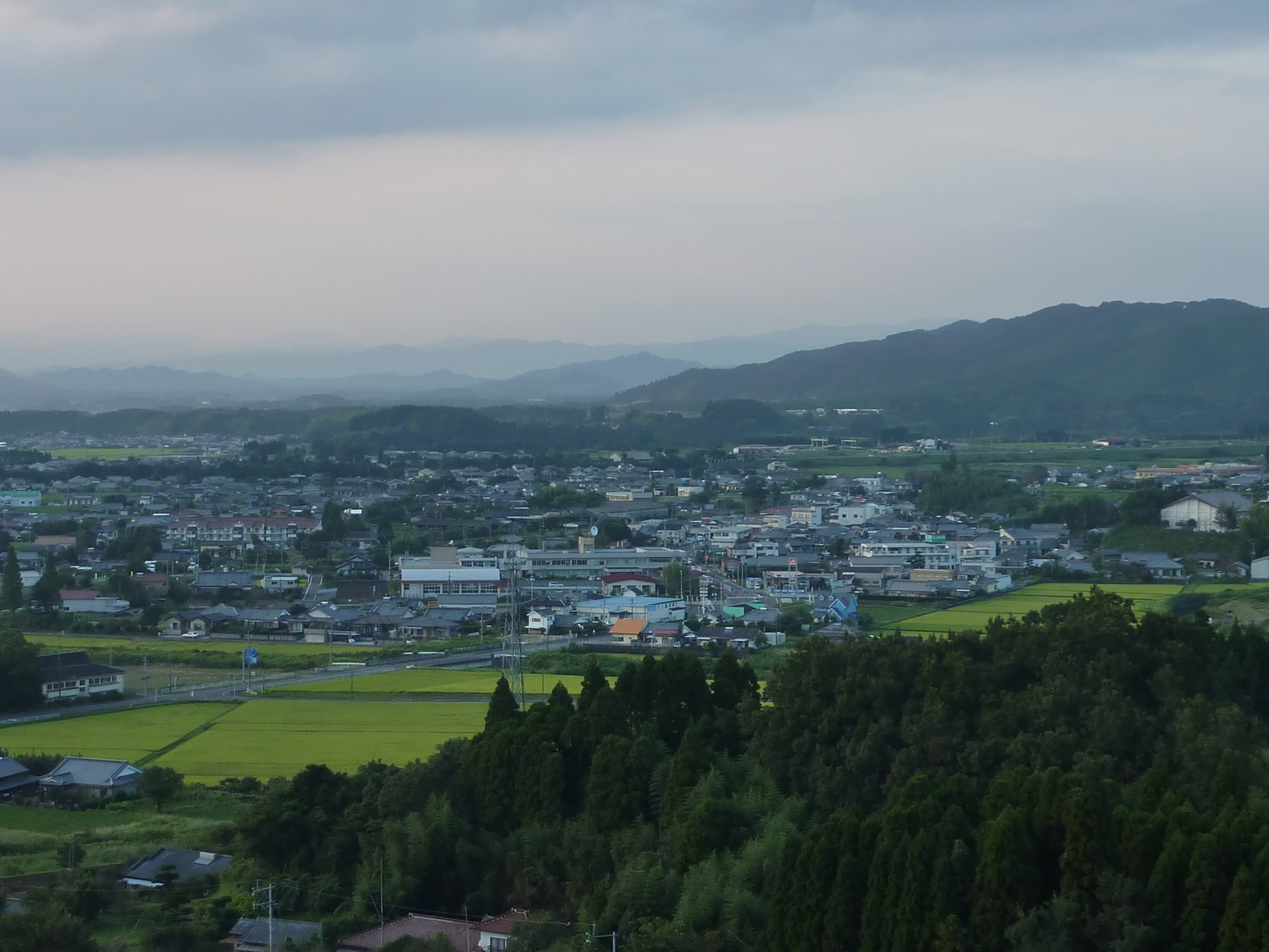 Yamanokuchi, Miyakonojo City, Miyazaki Prefecture, Japan